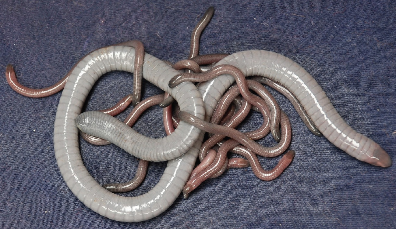 Herpele squalostoma, female with her young. Taken June 26, 2012. Adult total length approximately 36 cm. Photographed at Nkong on the northeastern outskirts of the city of Yaounde, Centre Region, Cameroon.